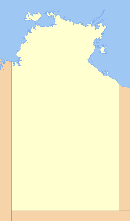 NT location map.